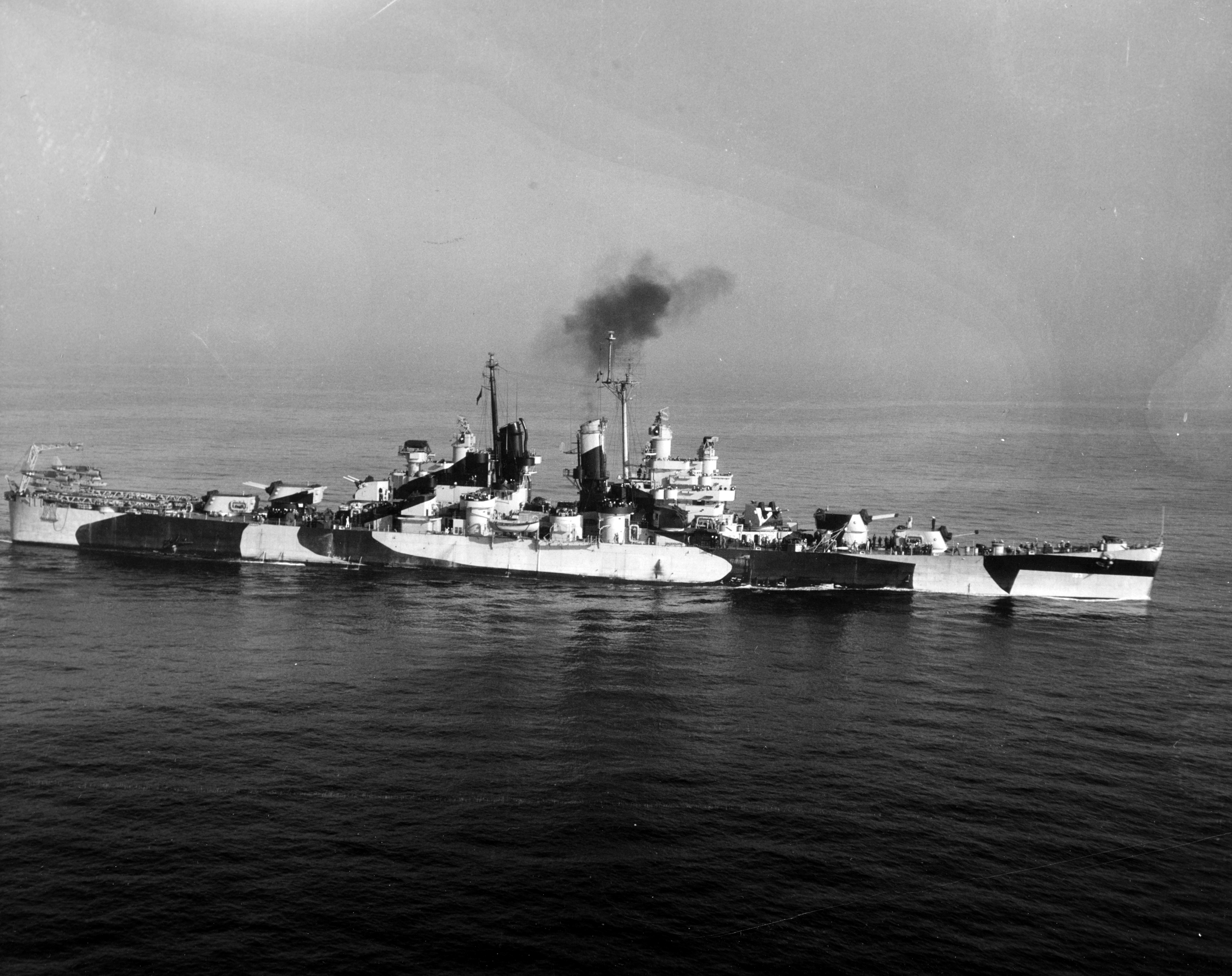 USS Wilkes-Barre (CL-103) underway on 10 July 1944, ten days after she was placed in commission. Her camouflage is Measure 33, Design 24D.